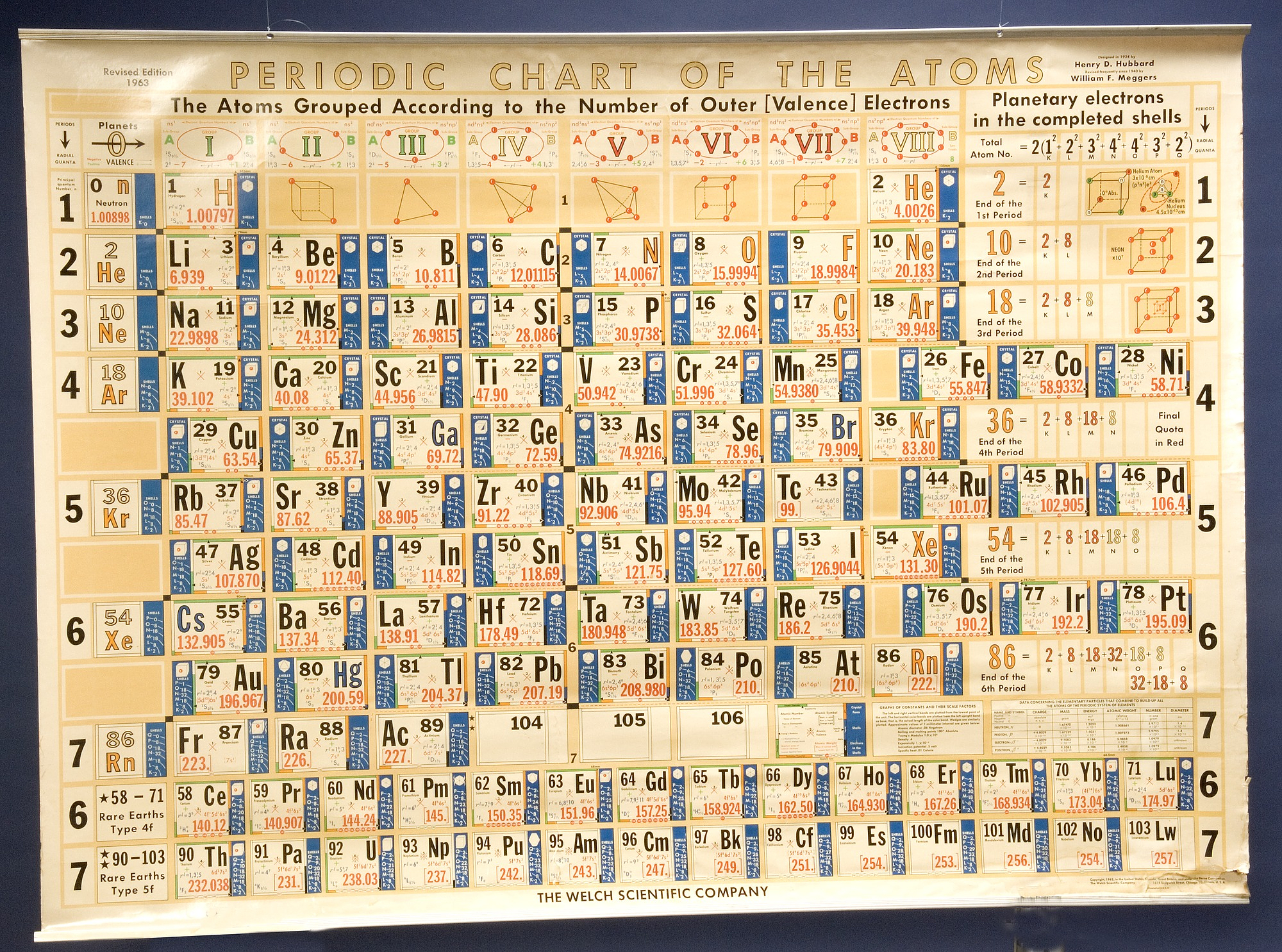 Chart. Periodic Chart of the Atoms, 1963. 1994.0019.01.